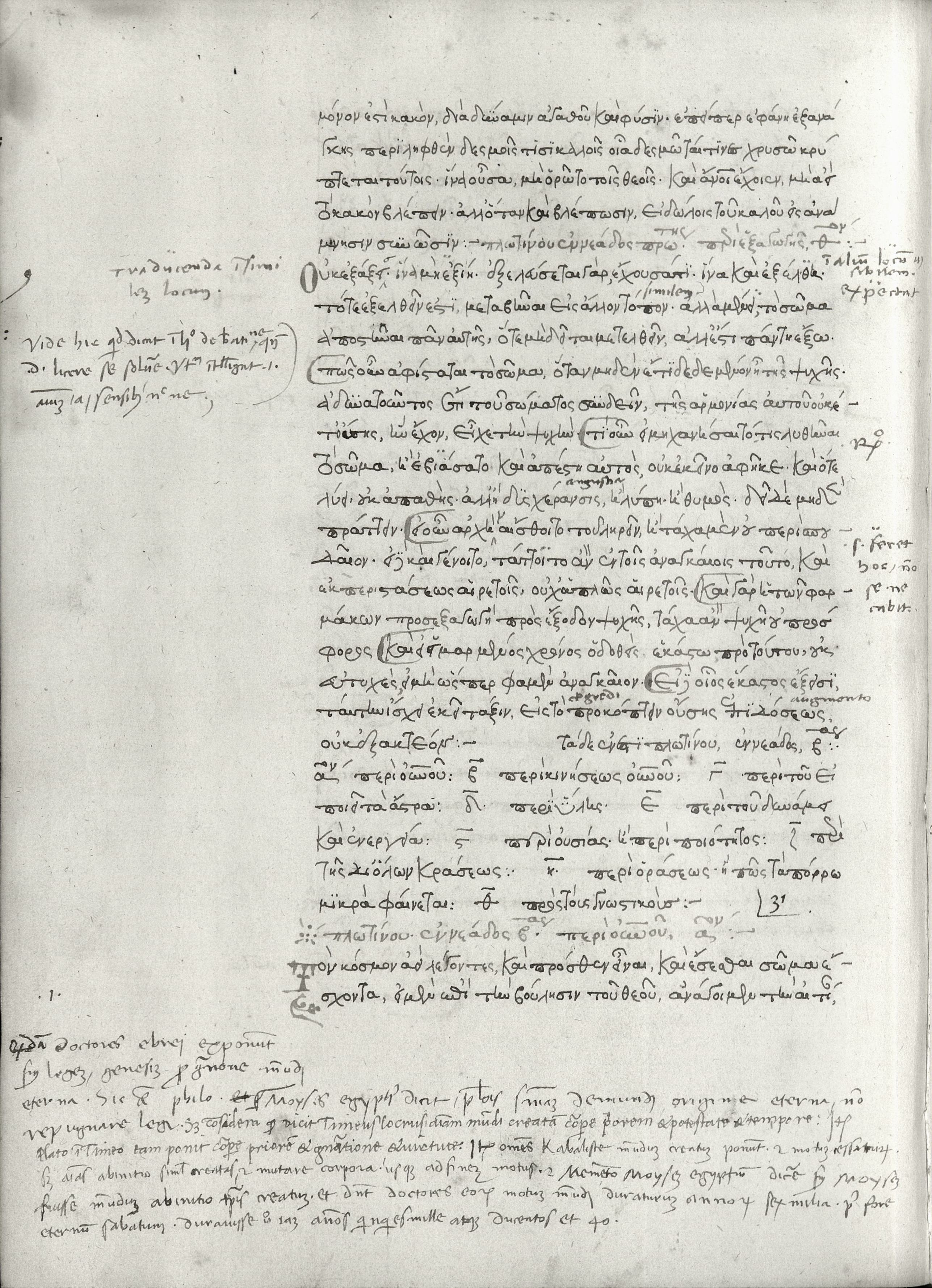 A manuscript of the “Enneads” annotated by Marsilio Ficino. It was Ficino's main working copy of the Greek text and contains many of his marginal annotations. The manuscript was written at Florence by the scribe Ioannes Scoutariotes. Paris, Bibliothèque nationale de France, Gr. 1816.